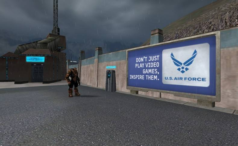 An in-game screenshot of an advertisement billboard in the video game Anarchy Online. The game's Free Play program allows users free access to the game in return for viewing ads supplied by Massive Inc.